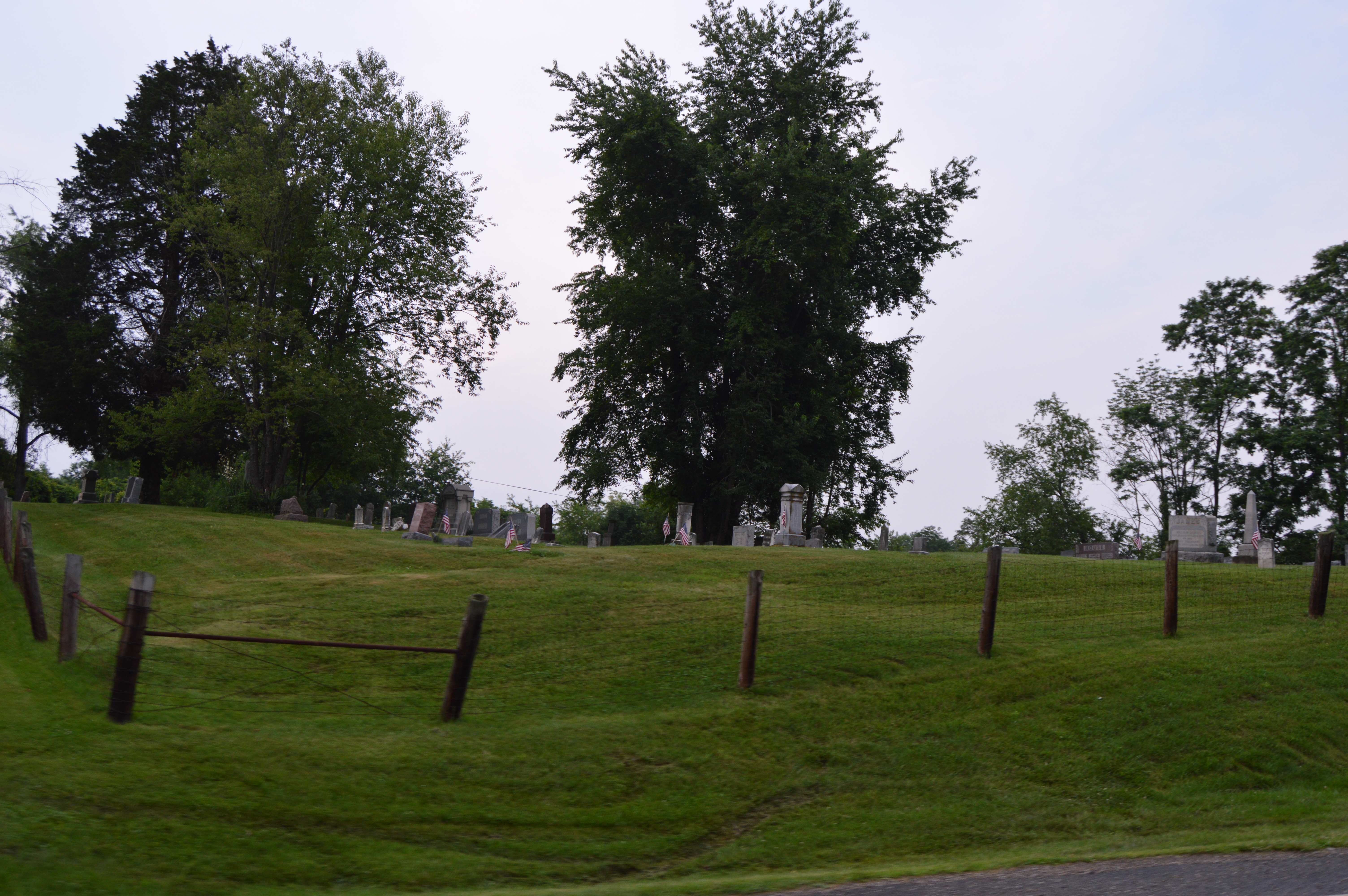 Overview of the community cemetery on State Route 313 in Kennonsburg, Ohio, United States.